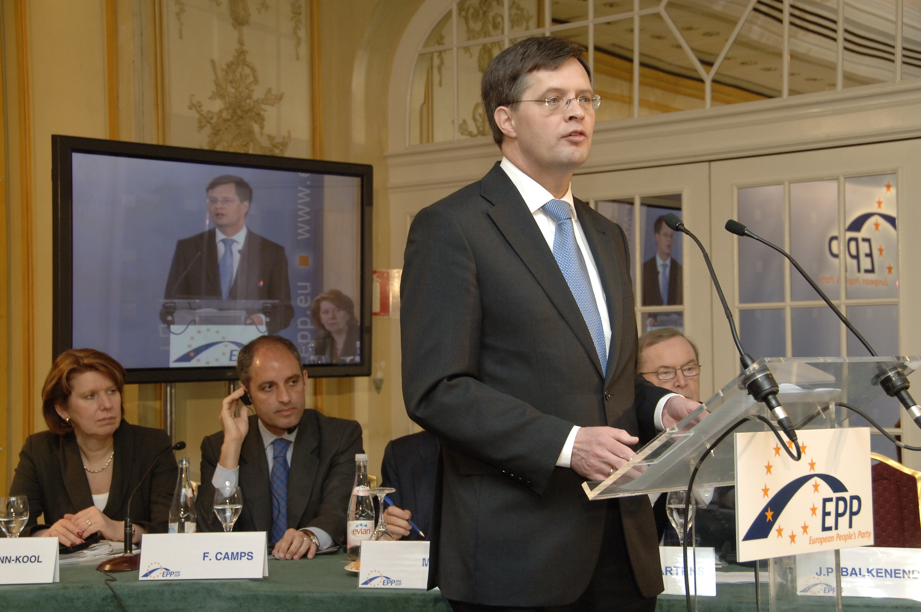 EPP CONVENTION ON CLIMATE CHANGE IN MADRID (6-7 FEBRUARY 2008)